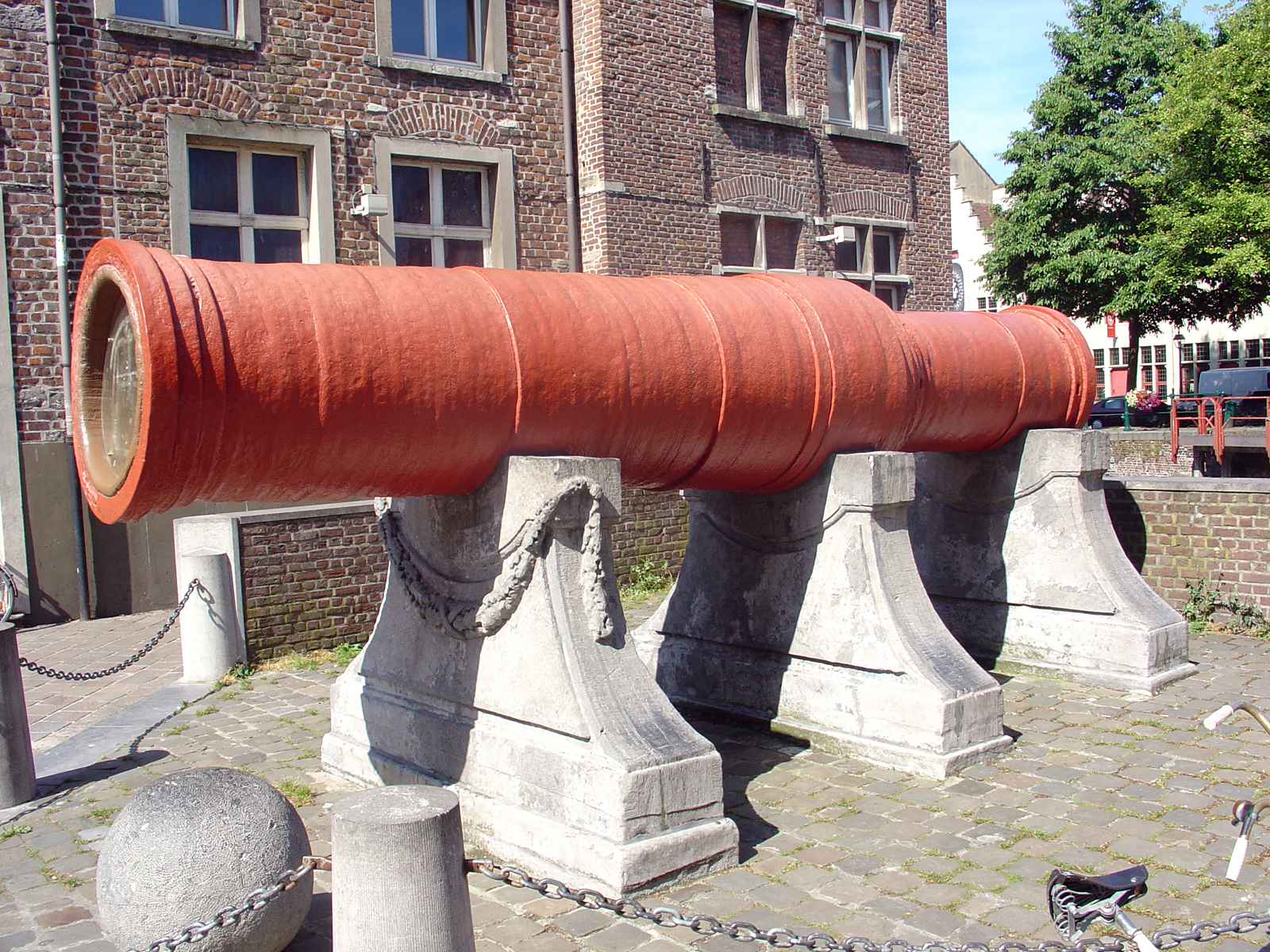 Dulle Griet ("Crazy Griet"), a medieval supergun from the first half of the 15th century from Ghent, Belgium Česky: Historické dělo Dulle Griet v centru města Gent, Belgie